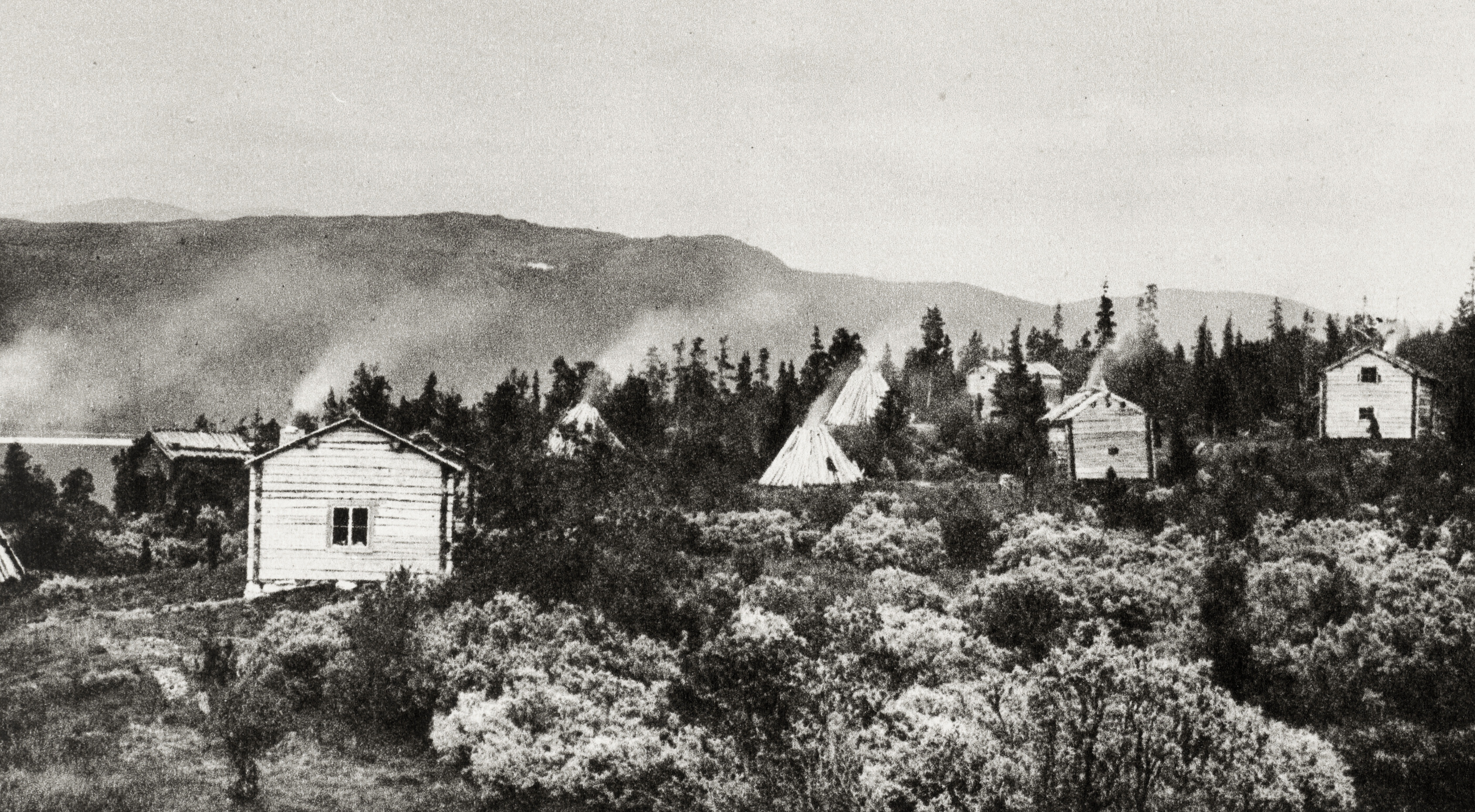 Accommodation for nomad Sami (Lapps) visiting church in Fatmomakke, Västerbotten, Sweden. Read more in